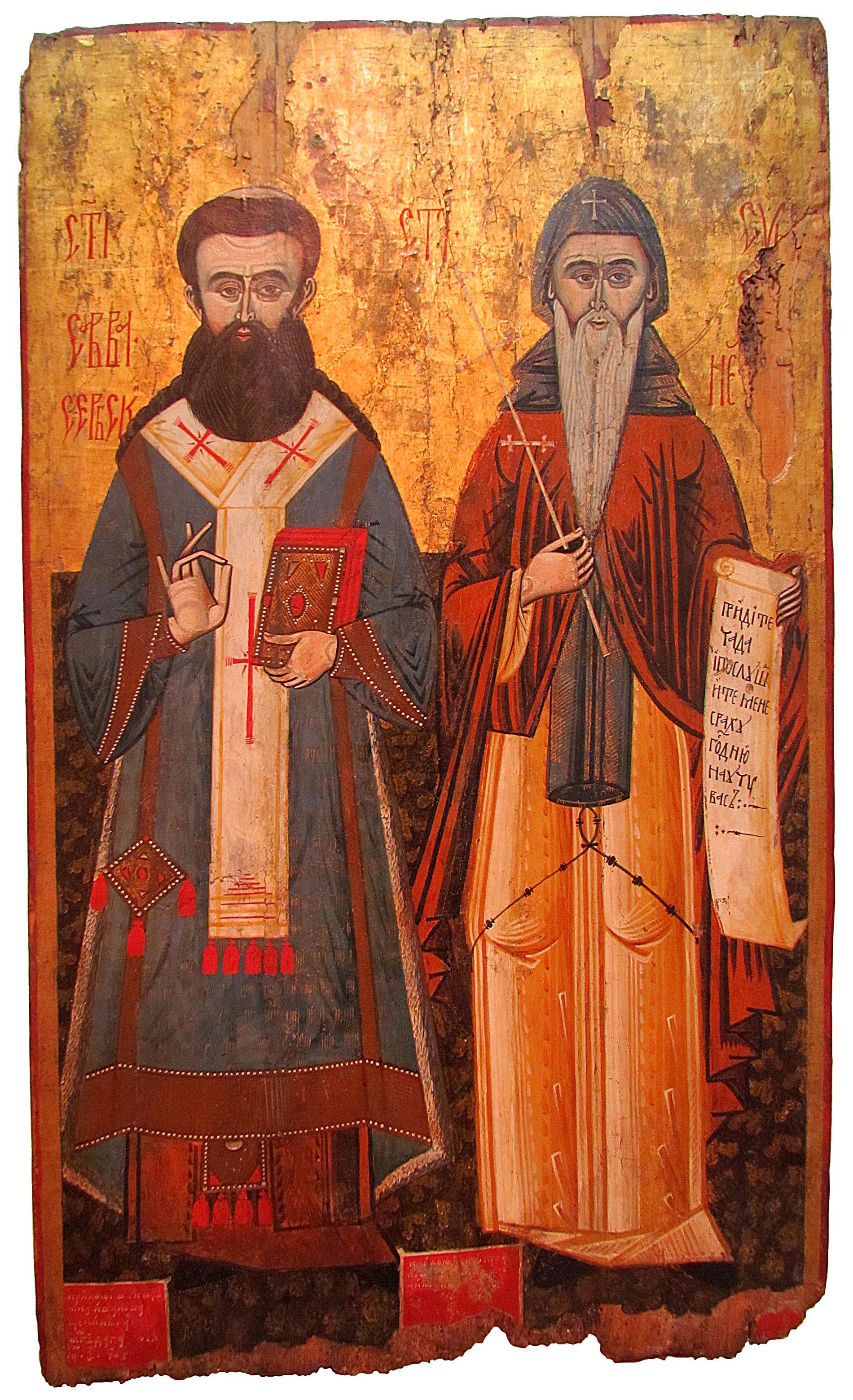 St. Sava and Nemanja 1796, Bay of Kotor painting school